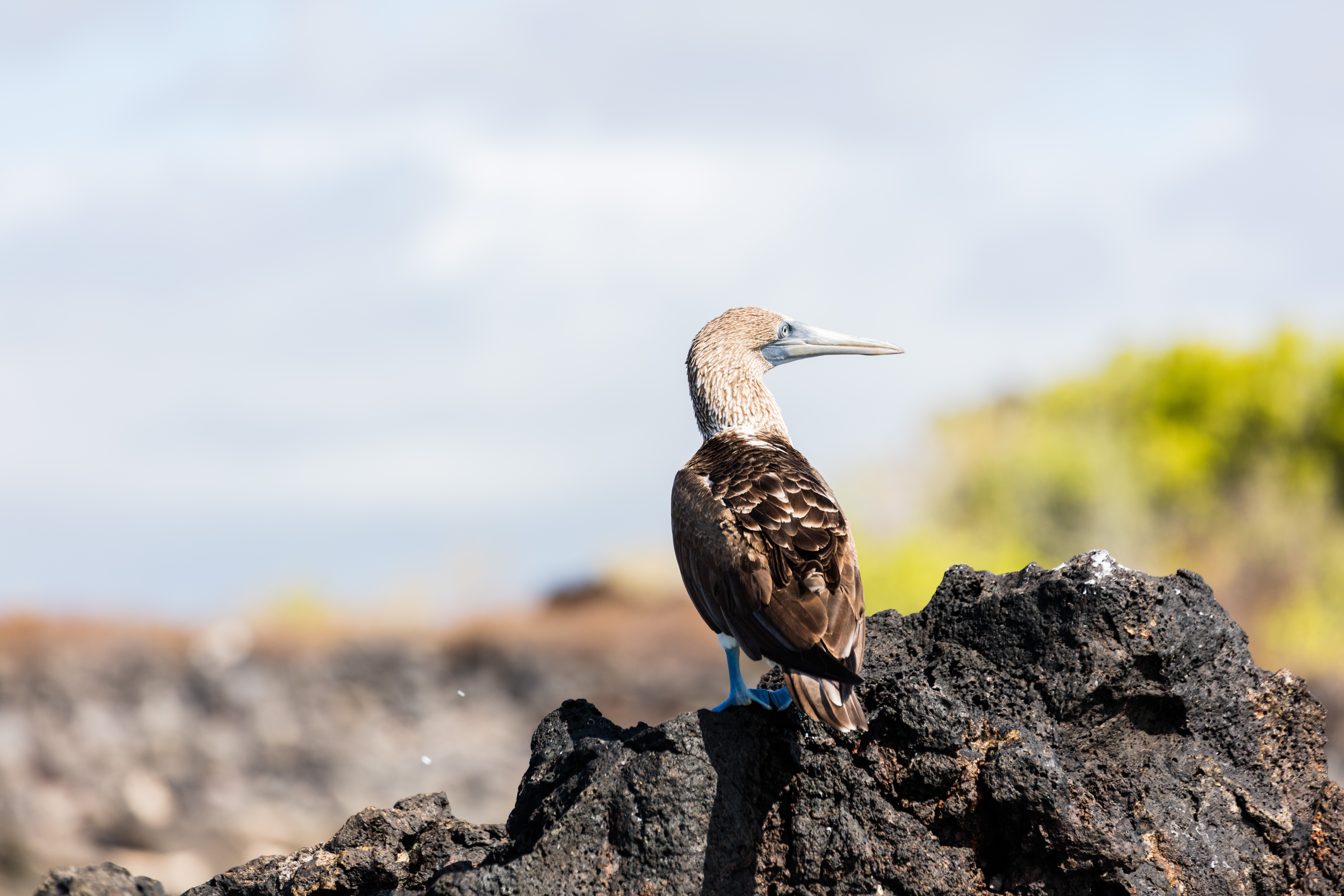 Blue-footed booby (Sula nebouxii), Las Bachas, Baltra Island, Galapagos Islands, Ecuador